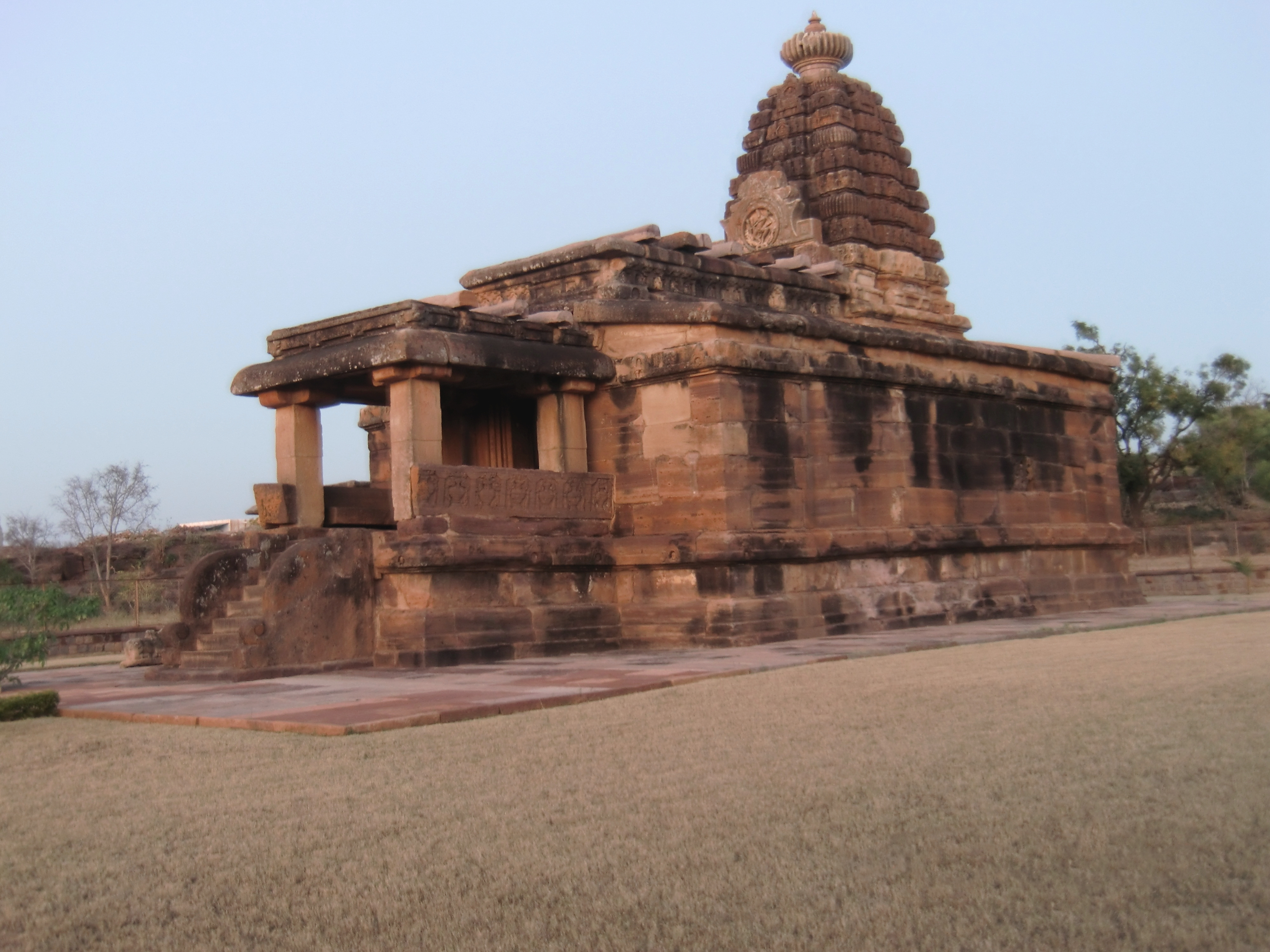 Hucchimalli temple Aihole